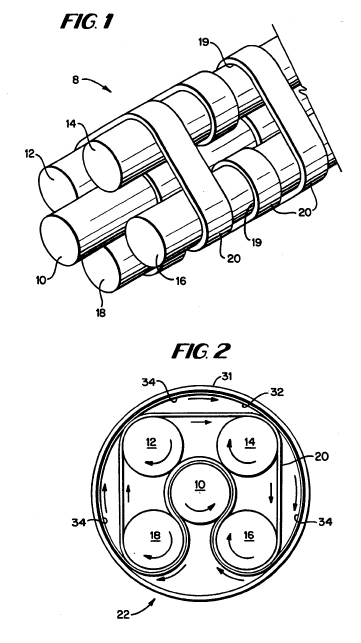 Image of the structure of a scrollerwheel from its patent. Sandia Atomic Labs "Rolamite Principle" finally displays "Continuous Rotary Motion" with friction so low that it needs no lubrication. This successfully completes the task begun in 1968 by Sandia Atomic Labs with the first mechanical principle to emerge in 300 years (since the clutch). Although the ROLAMITE, the linear version of this technology is in the public domain, The ScrollerWheel is NOT in the Public Domain The patent is owned by Erik Brinkman at